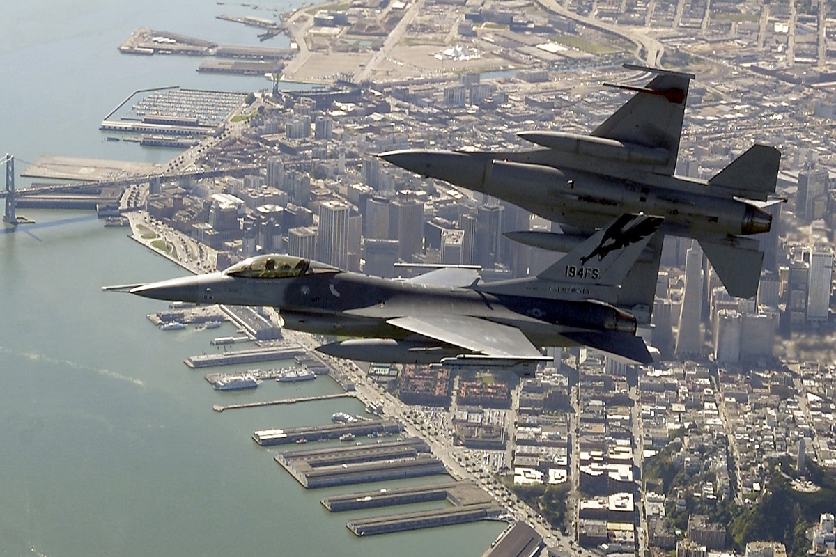 A U.S. Air Force General Dynamics F-16C Fighting Falcons begin to roll into position over San Francisco, California (USA), for a rapid decent during an operation "Noble Eagle" training patrol on 16 March 2004. The F-16s are assigned to the California Air National Guard's 194th Fighter Squadron, 144th Fighter Wing in Fresno, California (USA). (Note: The description on the NORAD website is different than the one in the Metadata)